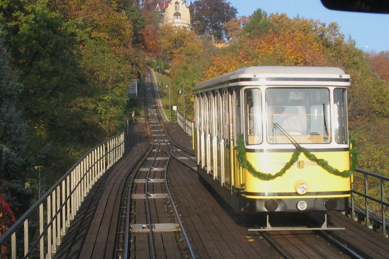 Looking out of the back of a car of Dresden's Funicular railway (Standseilbahn Dresden) going down, passing the car going up. The car is decorated for the 110th anniversary of the funicular, which was celebrated on the day the picture was taken.